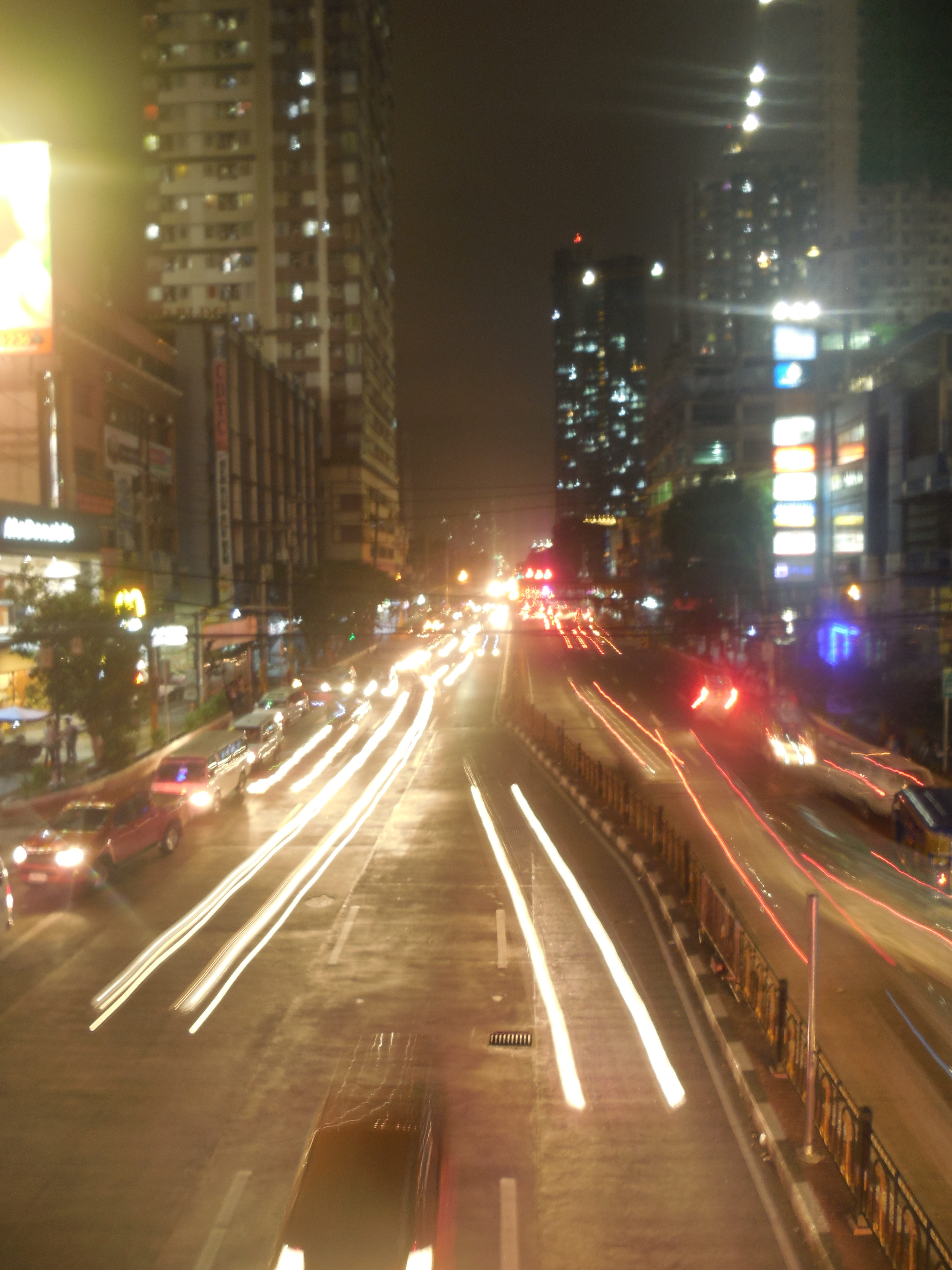 España Boulevard in Manila at night, facing north.